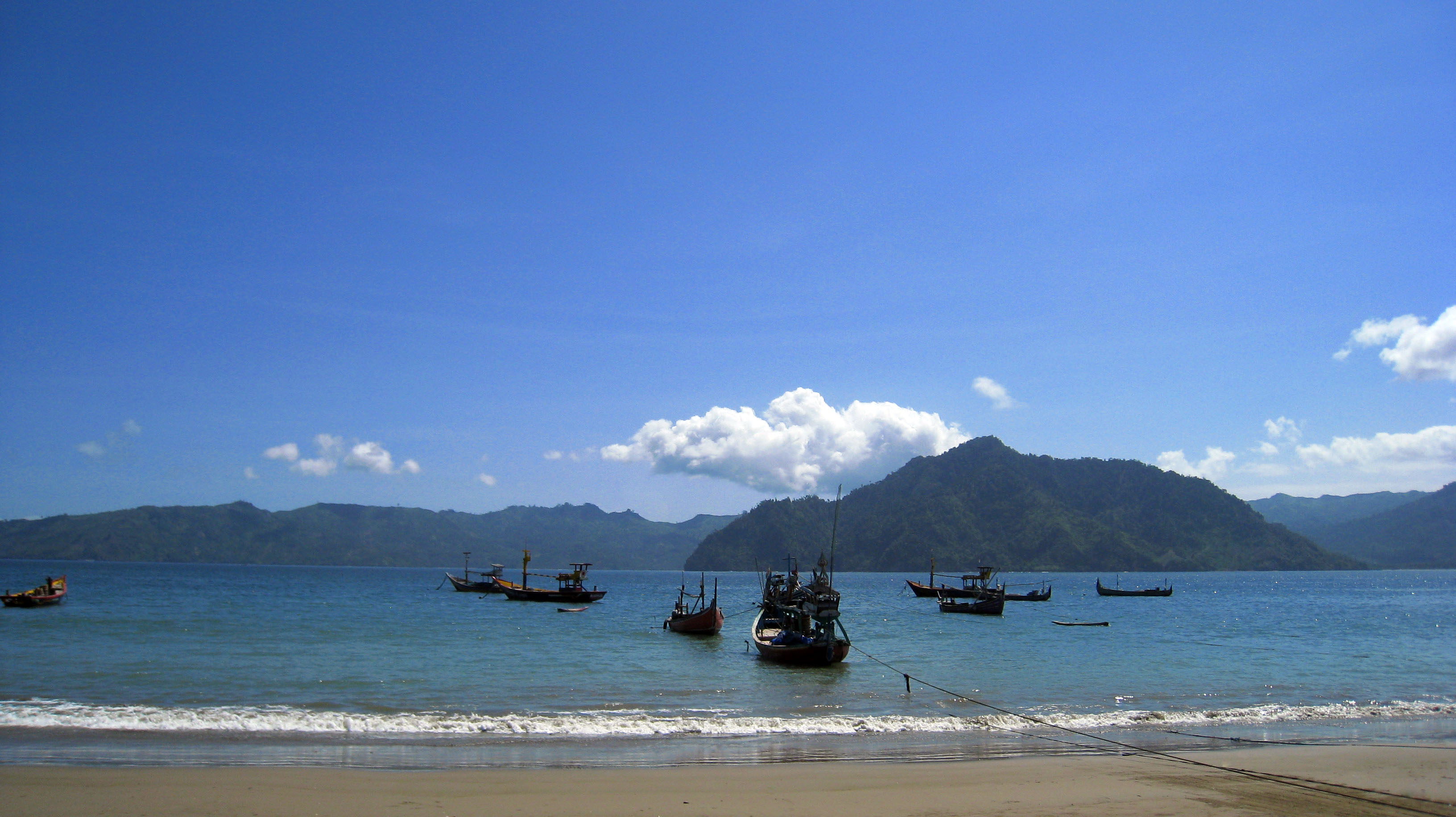 Prigi beach scene in Trenggalek, East Java, Indonesia